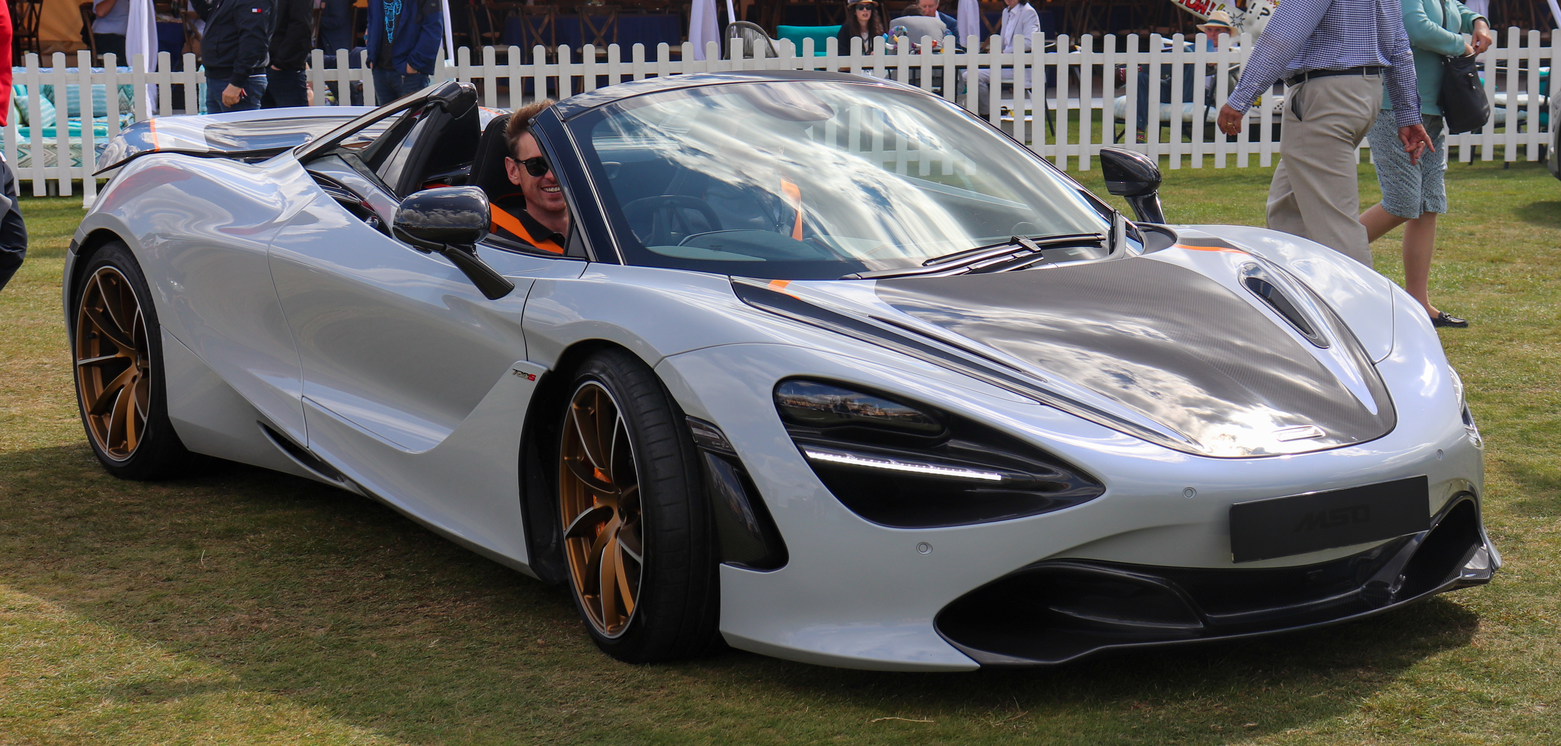 2019 McLaren MSO 720S Spider Taken at the Salon Privé Concours d'Elegance Classic Car Motor Show 2019, Blenheim Palace